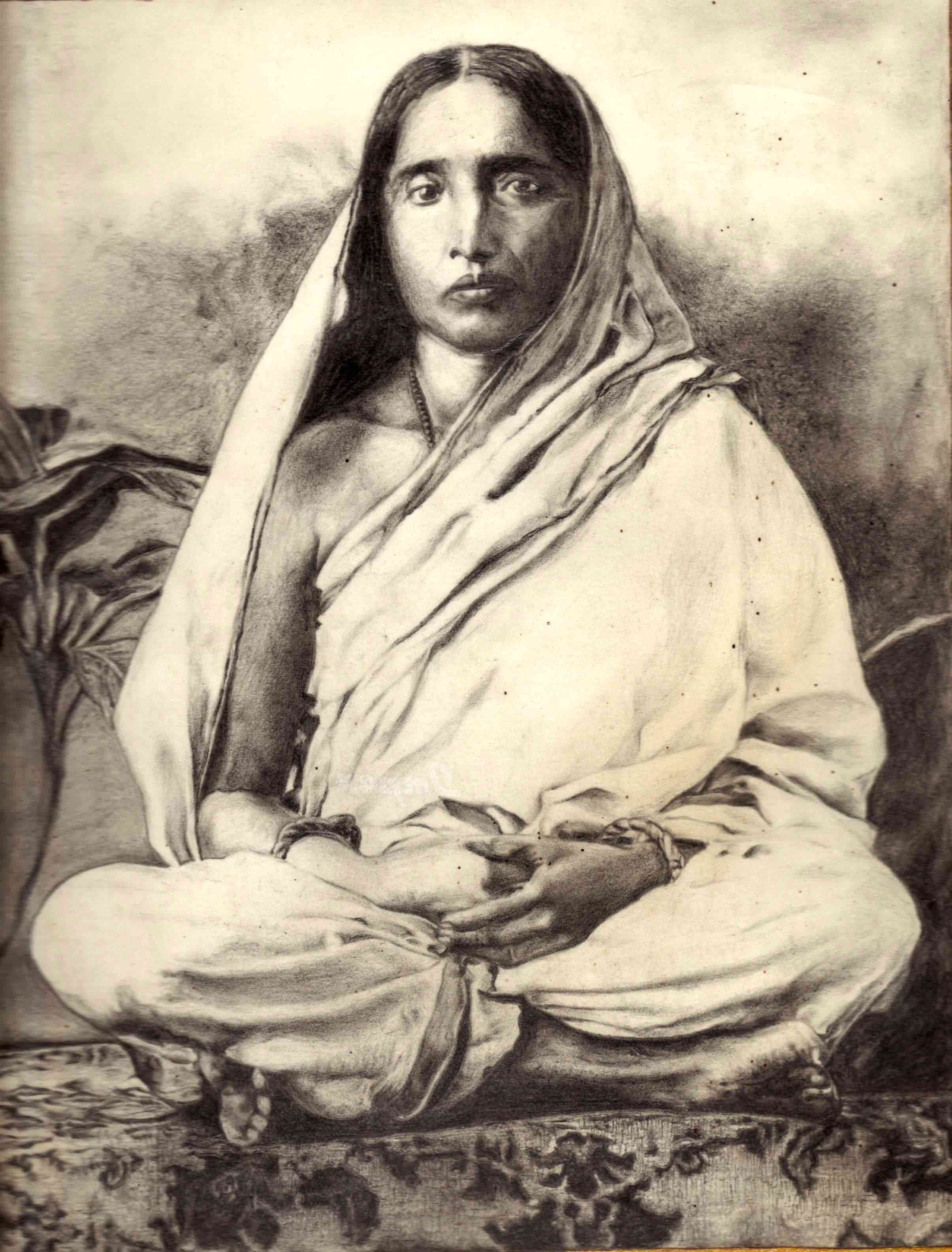 This is a pencil sketch of the holy mother Sri Sarada Devi